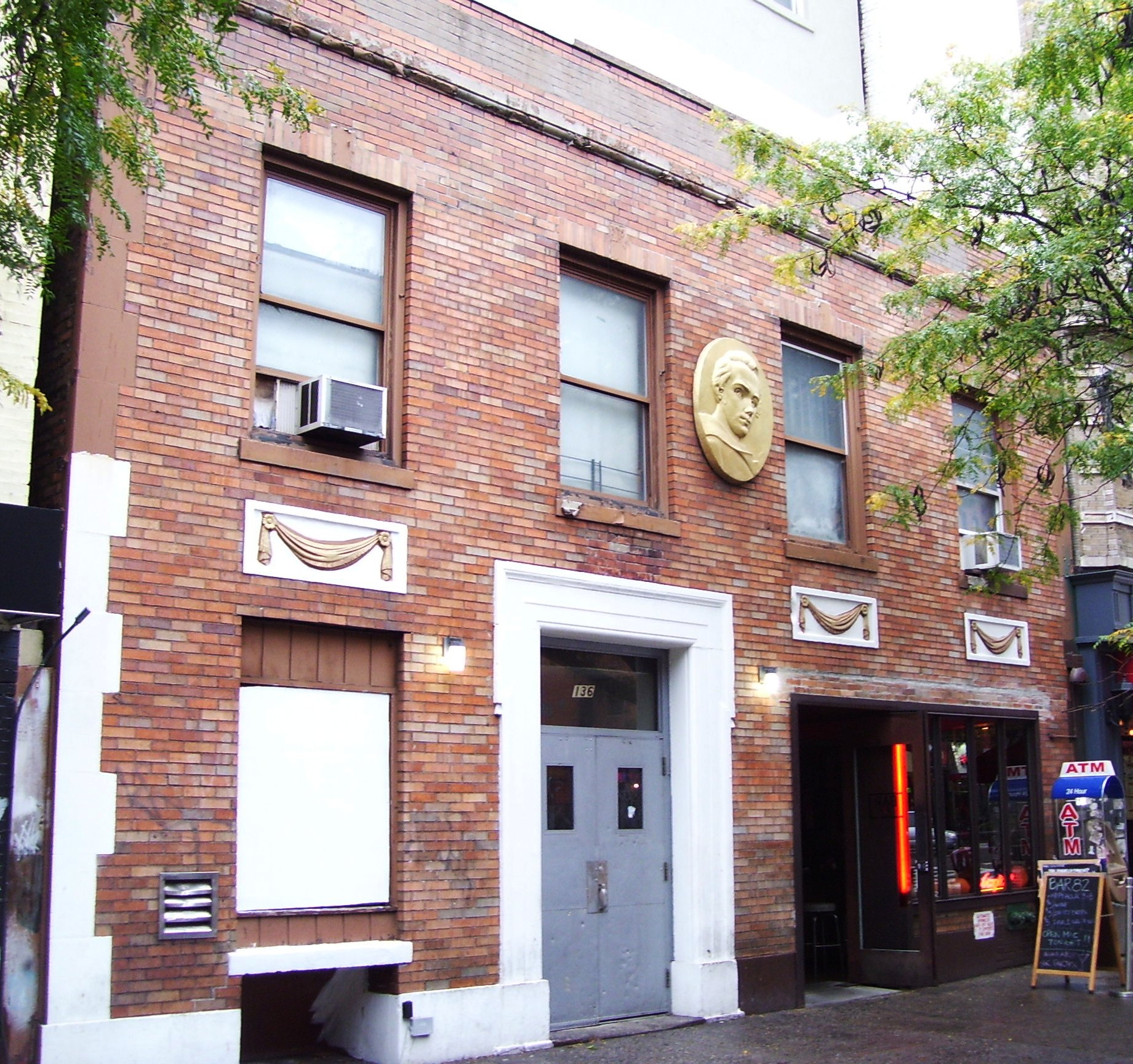 The building at 136 Second Avenue between St. Marks Place and East 9th Street in the East Village neighborhood of lower Manhattan, New York City was originally built c.1890 by the Sisters of Divine Compassion, a Roman Catholic order which ran the House of the Holy Family and the Association for Befriending Children and Young Girls at the site. The building now houses Ukrainian organizations, and the medallion on the facade is Taras Shevchenko the Ukrainian national poet.